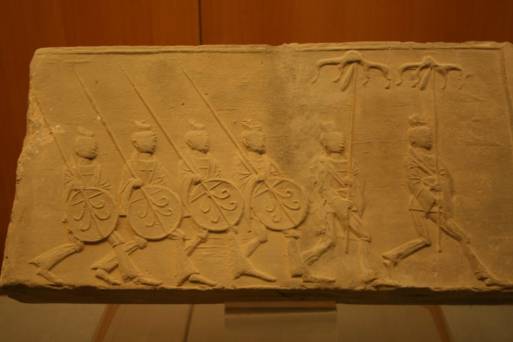 Relief scene of infantrymen wielding spears and shields with two in the front hoisting battle standards, carved on a tomb brick, from the Chinese Han Dynasty.